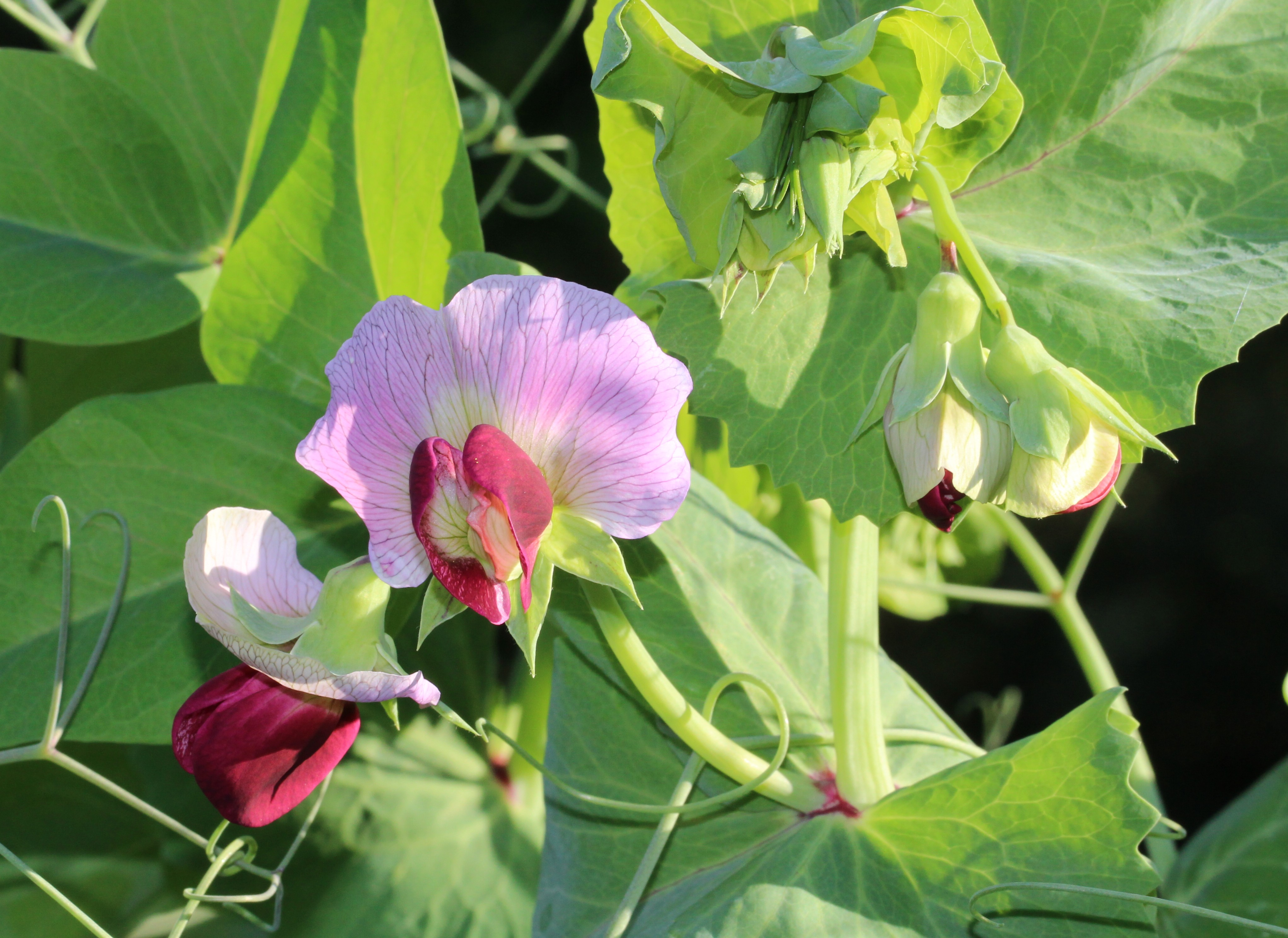 snow pea aka Pisum sativumDeitsch: snow pea aka Pisum sativum